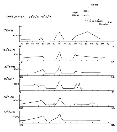 Doppelmayer crater cross section